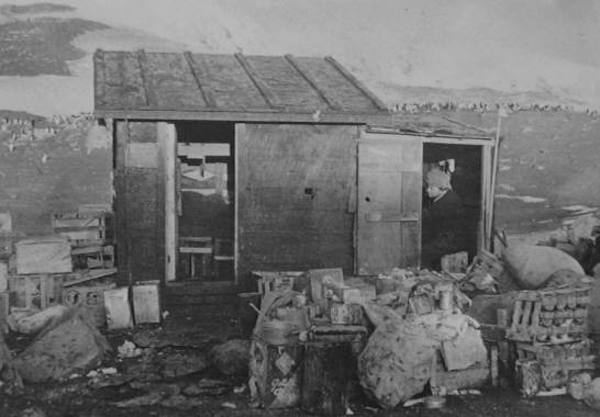 photograph of Argentine Summer Station Teniente Esquivel on Thule Island, South Sandwich Islands, 1955-1956